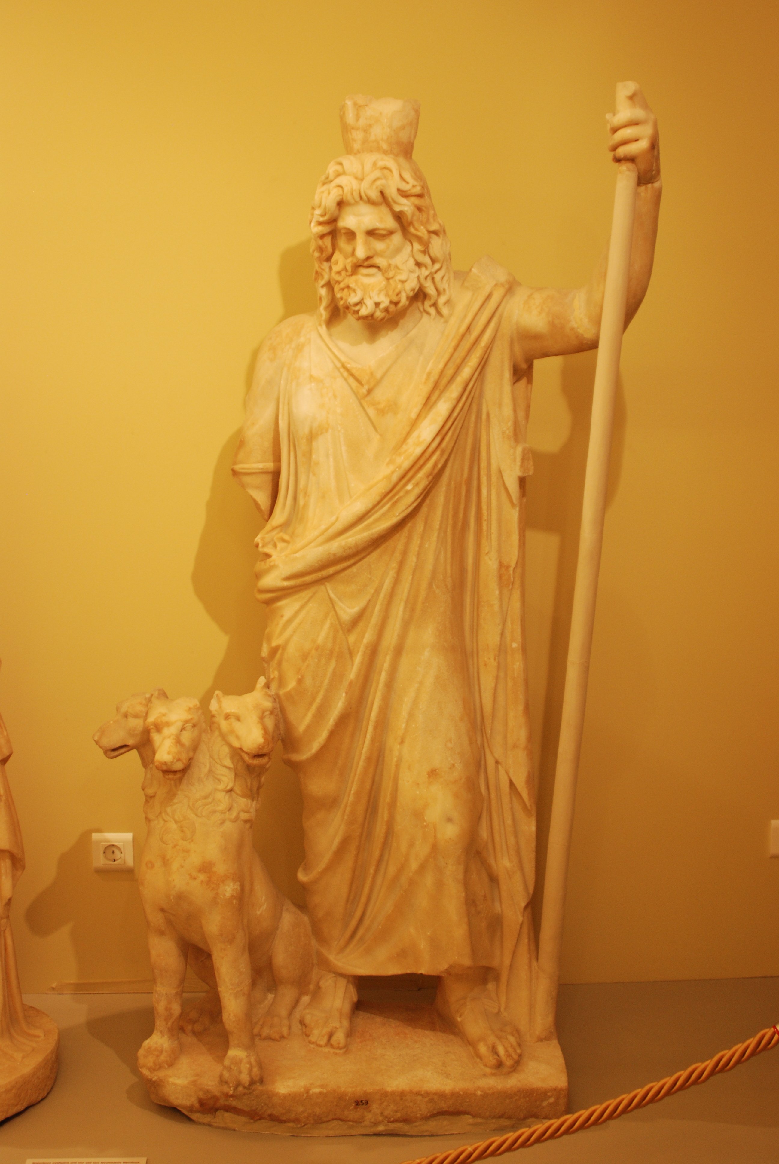 Marble statues from the Temple of the Egyptian Gods. Isis-Persephone, with her symbolic ornament on the head (disc-and-crescent) is holding a seistrum. Zeus -Serapis, with a modion onthe head, Is depicted as Plouto, Lord of the Underworld. Next to him is standing the three-headed dog Cerberus, guardian of Hades. Gortyn. Roman Imperial times (180-190 AD)